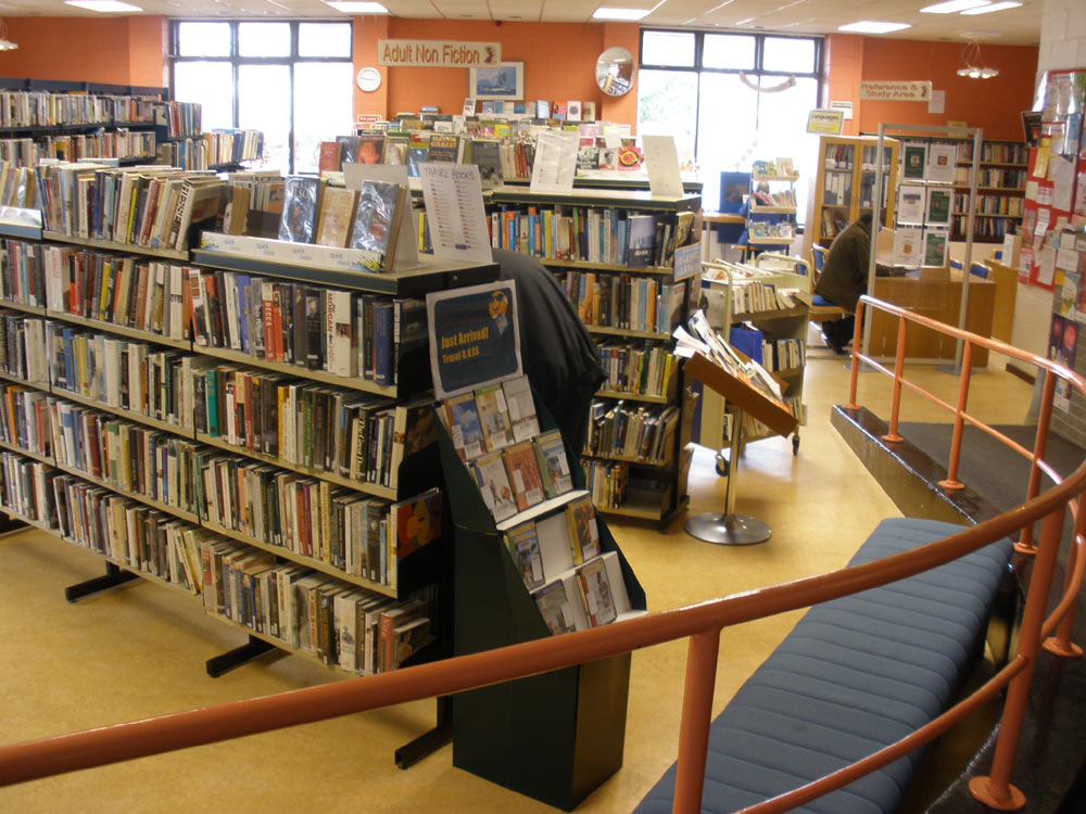 Inside the old public library on Orchardstown Villas in Ballyroan, Dublin, before it was replaced by a new library in 2013. The library states its address as Orchardstown Avenue, but the most conspicuous frontage and entrance are around the corner on Orchardstown Villas.